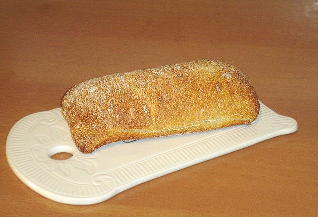 A half-sized Ciabatta